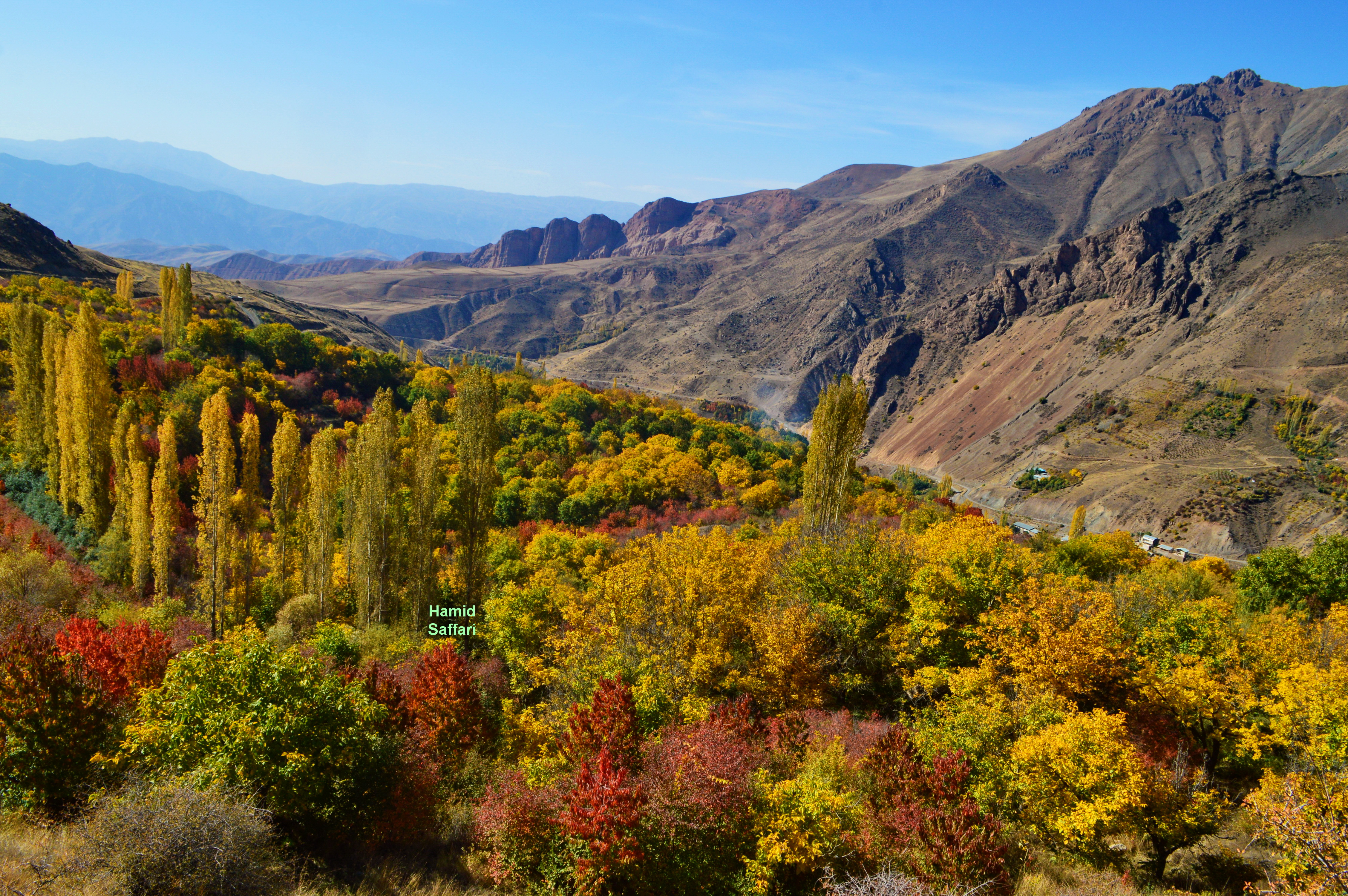 kochenan , Qazvin Province , Iran , 2017